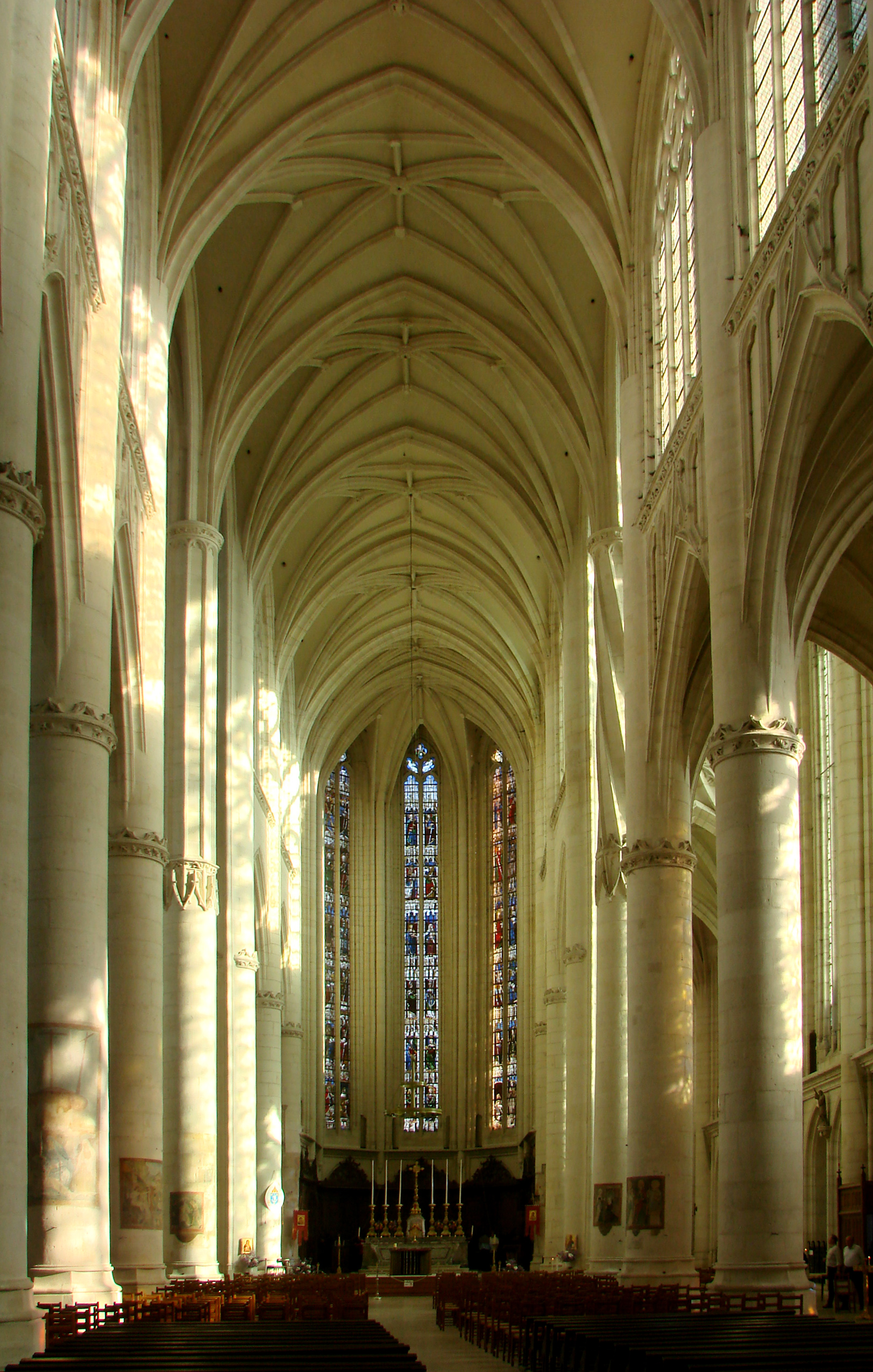 Saint-Nicholas basilica, Saint-Nicolas-de-Port, Meurthe-et-Moselle, Lorraine, France.16th century.